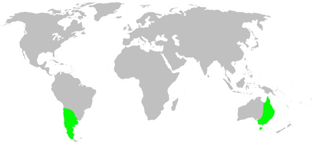 Malkaridae habitat distribution, drawn after Platnick: World Spider Catalog 7.0. This is not a precise rendering of the distribution! If you have better information, please replace this map, or send me the info, and i will redraw it.